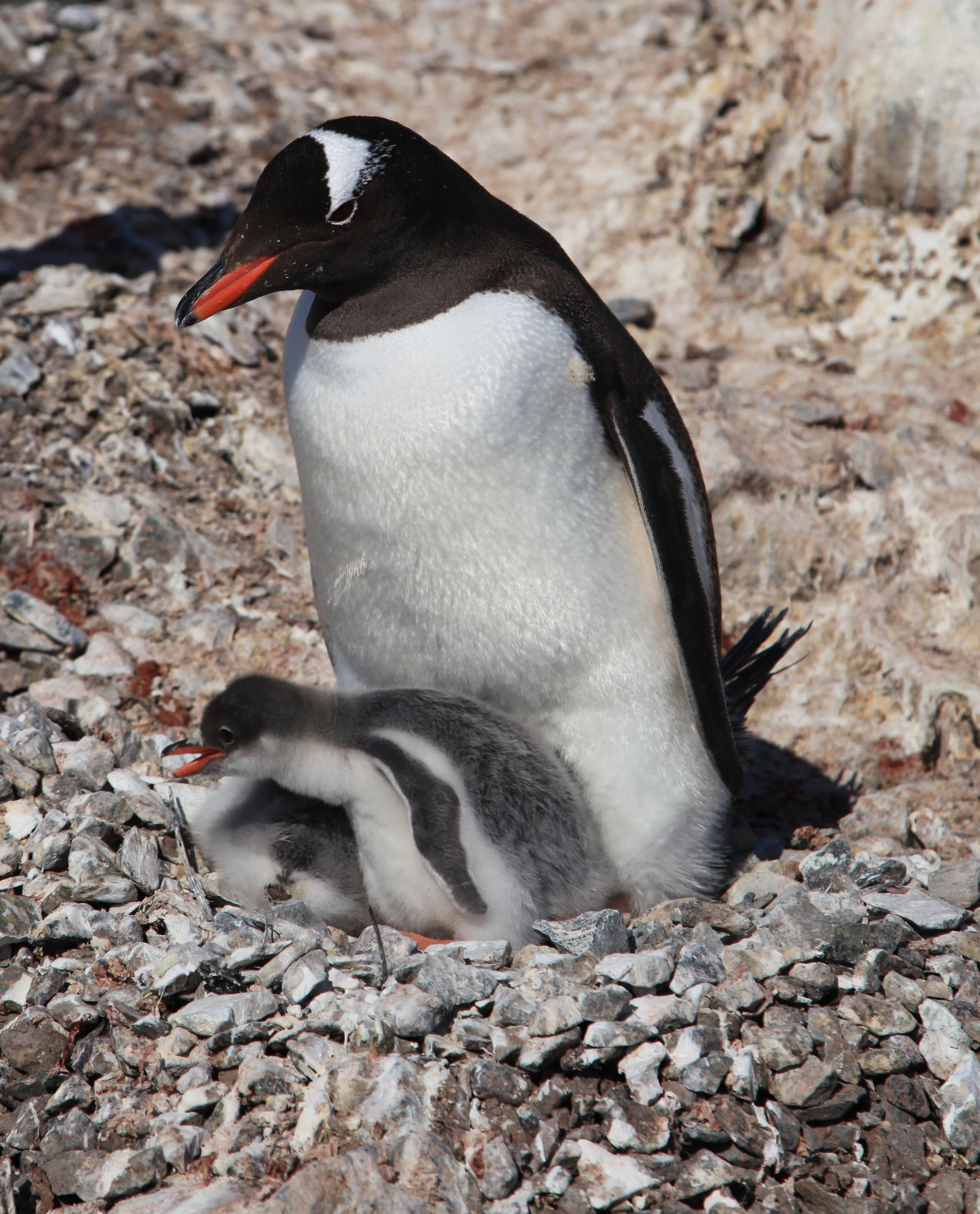 At Waterboat Point, Antarctica.